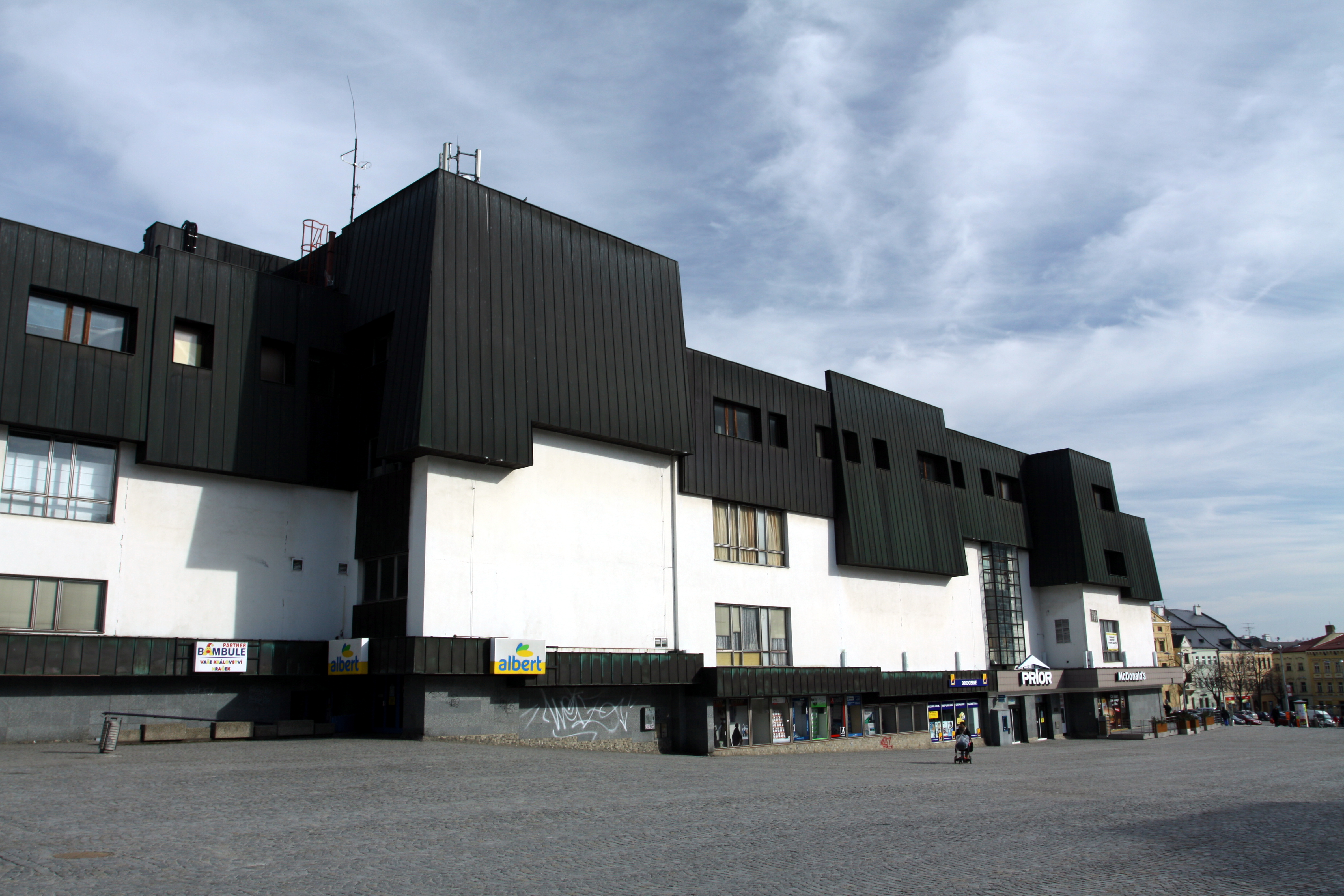 Building of Prior on Masaryk's Square in Jihlava town, Jihlava District, Czech Republic